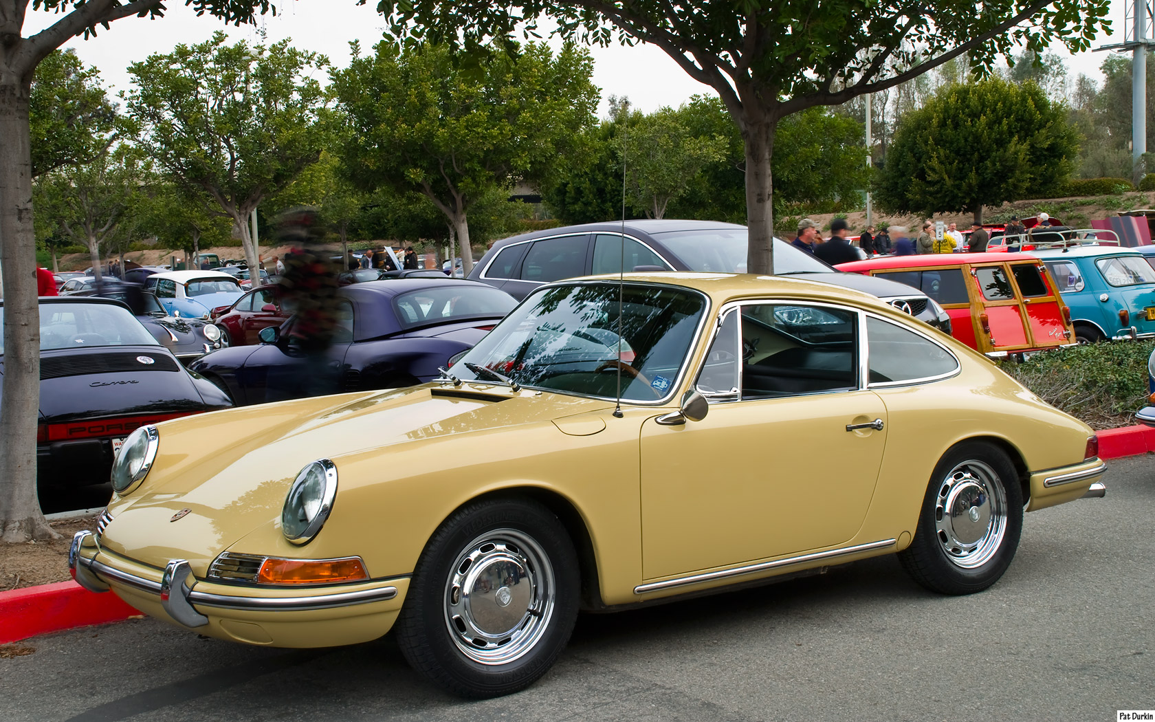 1964 Porsche 911 - yellow.